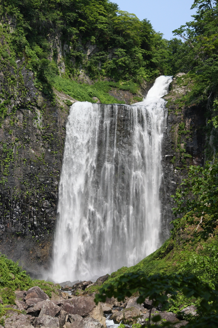 Garou Falls